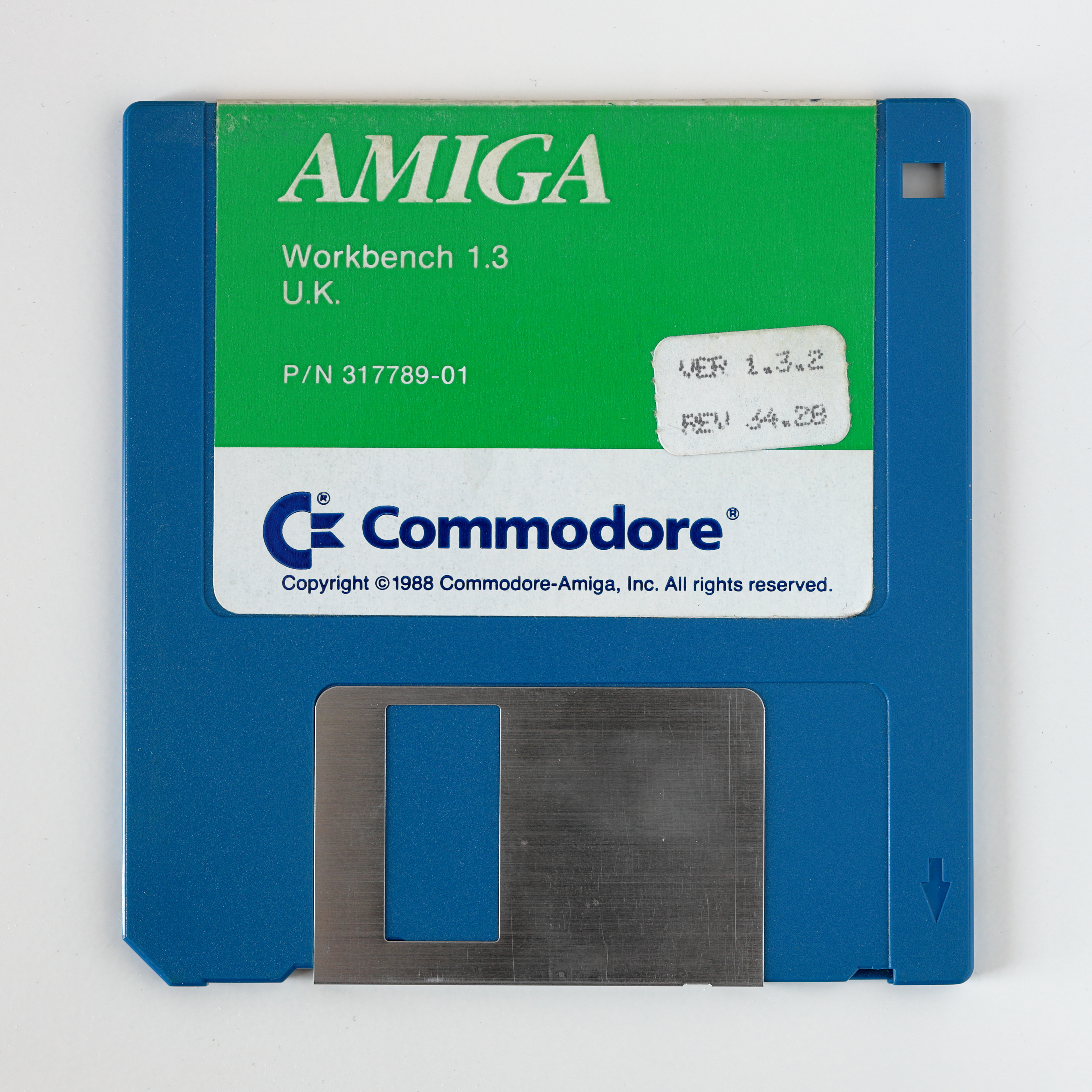 An original Commodore Amiga Workbench 1.3 UK floppy disk. A small sticker says "VER 1.3.2" and "REV 34.28". This diskette came with an Amiga 500 purchased in the early 1990s. The main sticker gives the part number as 317789-01.